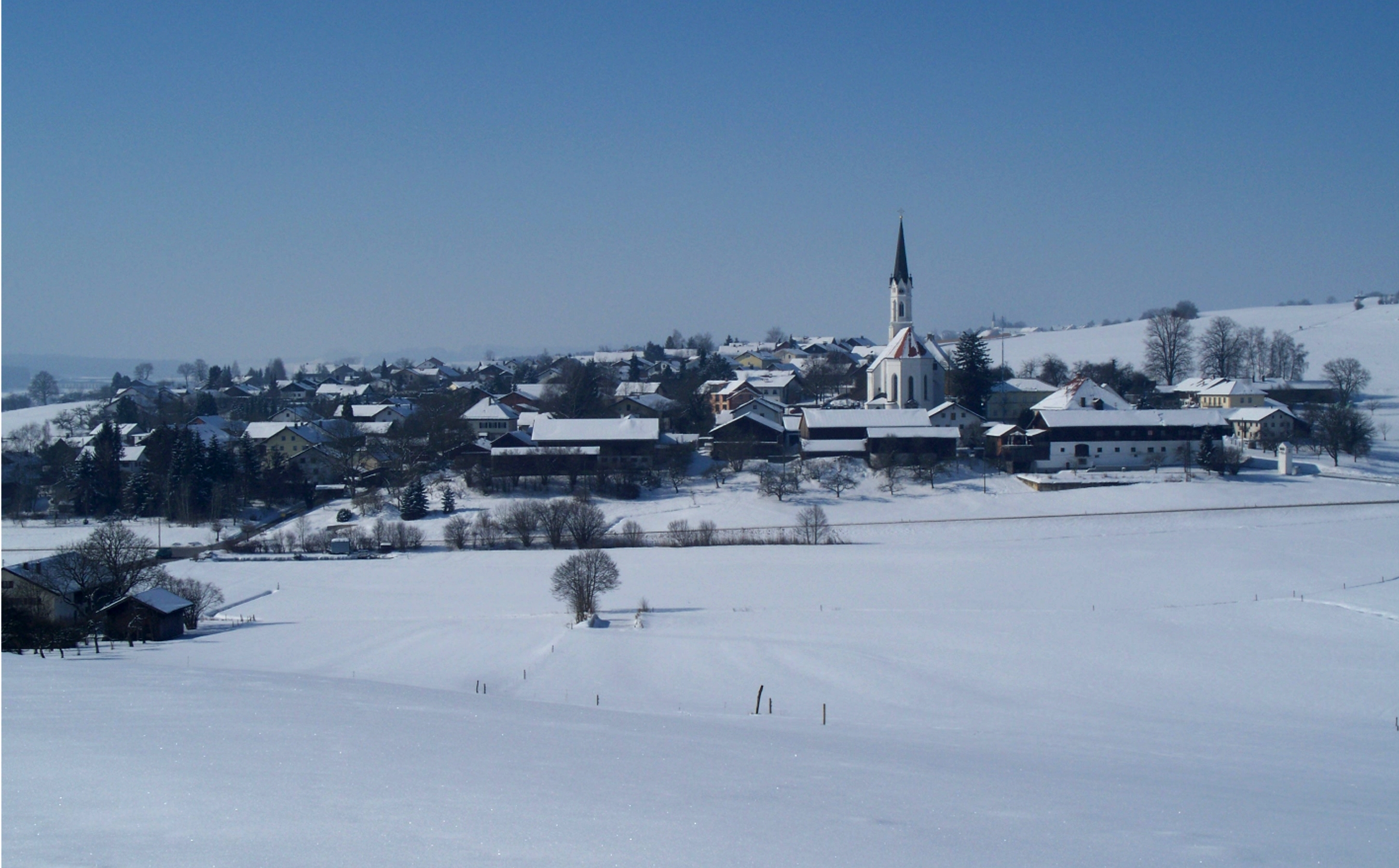 Kirchdorf bei Haag in Oberbayern in February 2010.